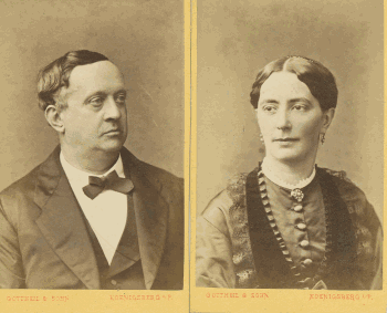 Hermann August Hagen (1817-1893) and his wife. First american Prof. of Entomology at the Harvard-University.